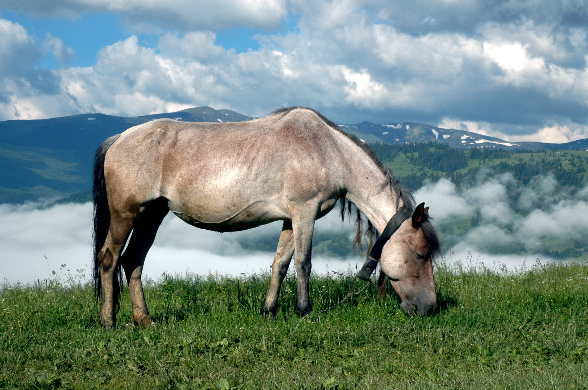 Hutsul in the Carpathian Mountains near Yasinia